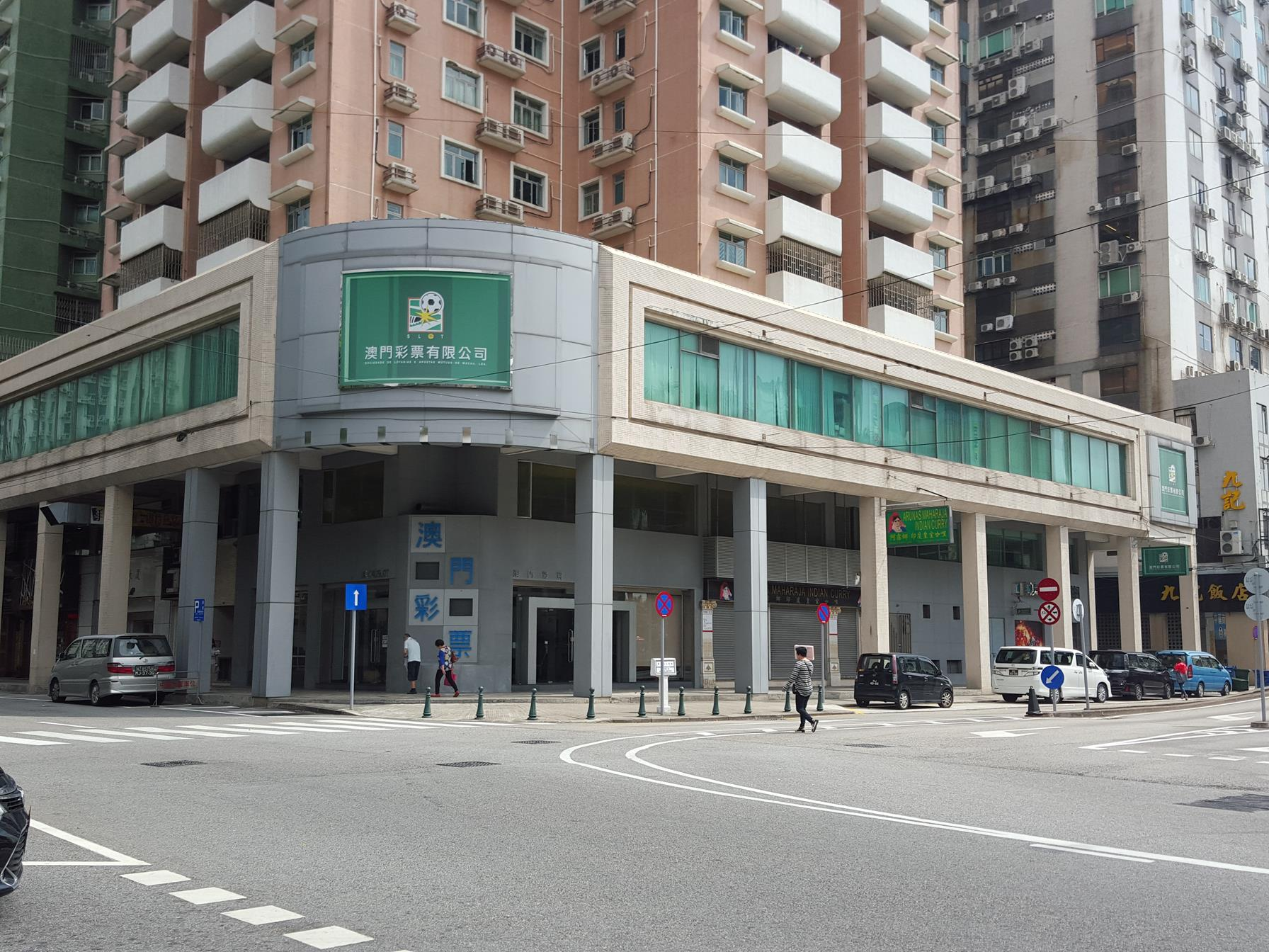 Store of Macau Slot